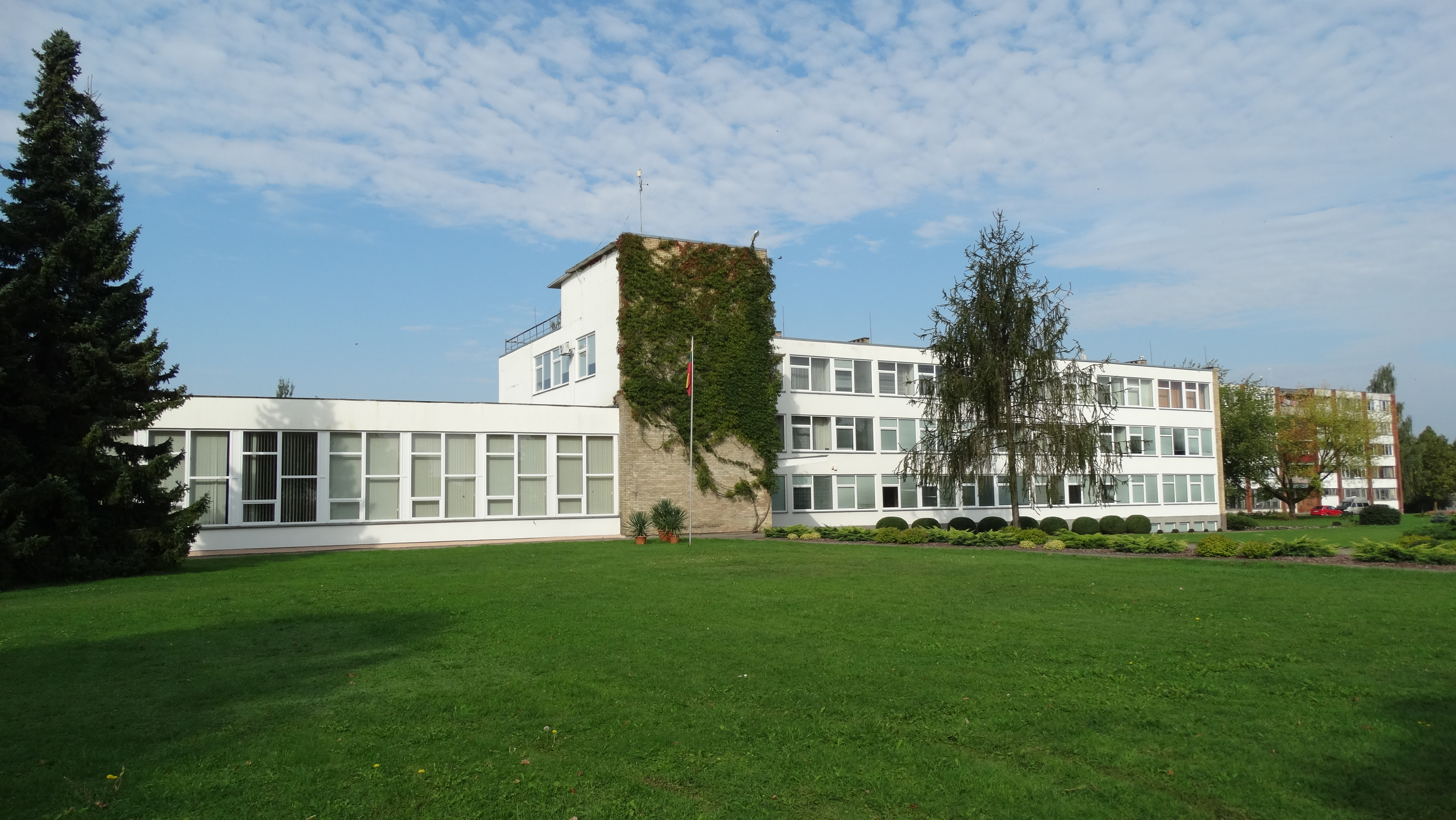 Research institute in Babtai, Lithuania